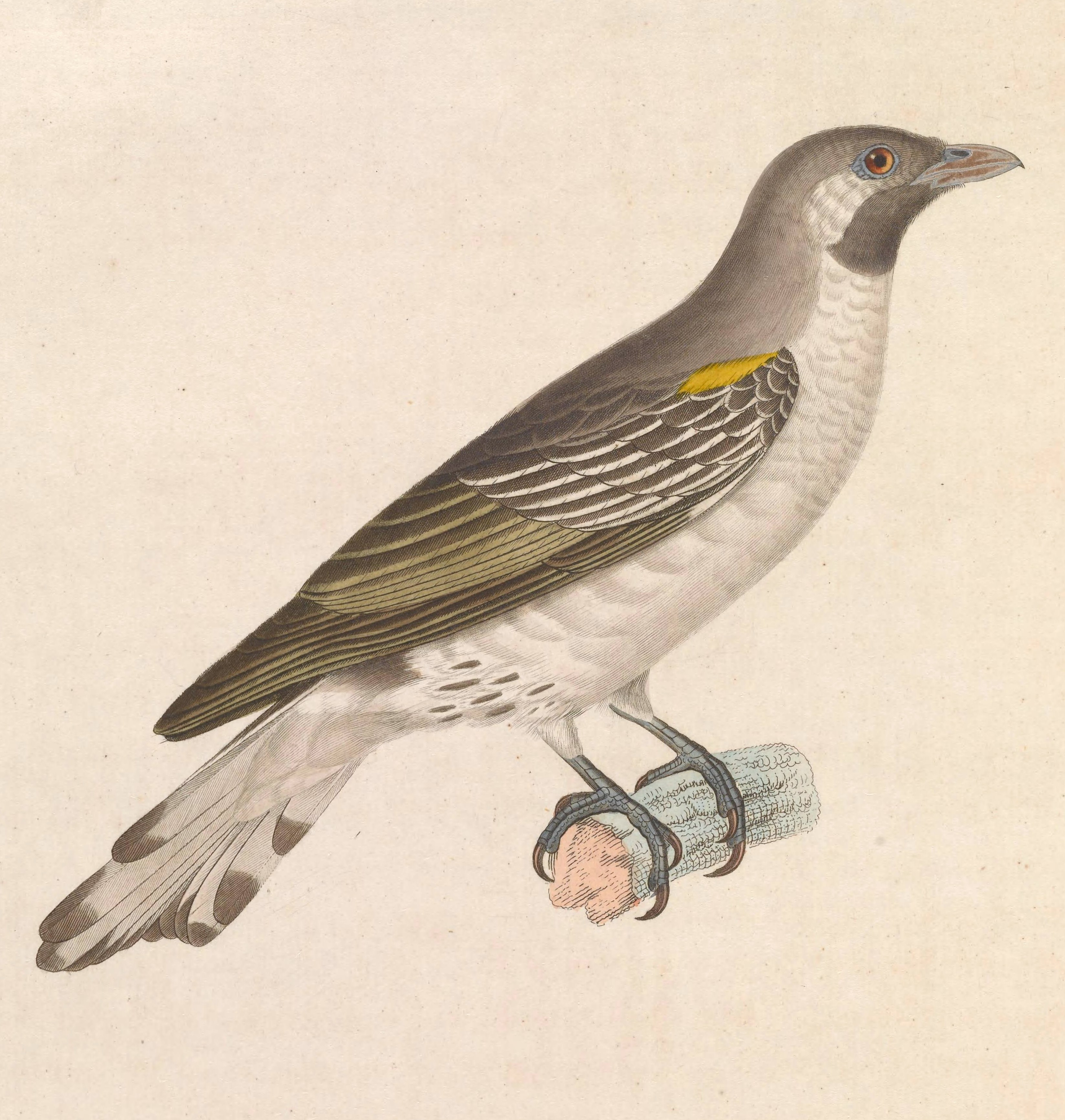 « Indicator albirostris » = Indicator indicator (Greater Honeyguide) - male